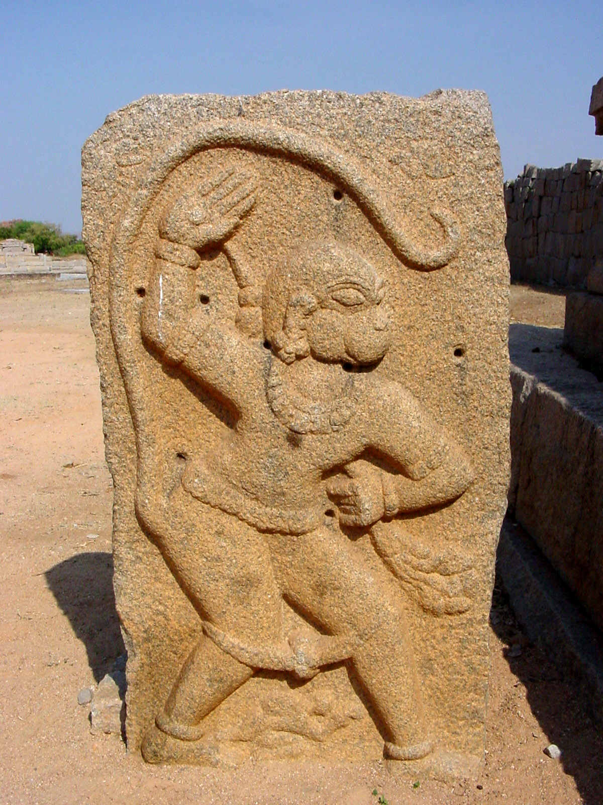 Panel of Hanuman. Ramachandra Temple, Vijayanagara This charming relief of Hanuman, the monkey general, is located just outside the temple enclosure. Contrary to appearances, he is not waving goodbye to the visitors. His right hand is upraised in a gesture of smiting, while his left hand holds an uprooted branch. The holes drilled into the panel are for the attachment of garlands. The slab was cut from another location and moved here; a similar relief is displayed in the on-site museum.